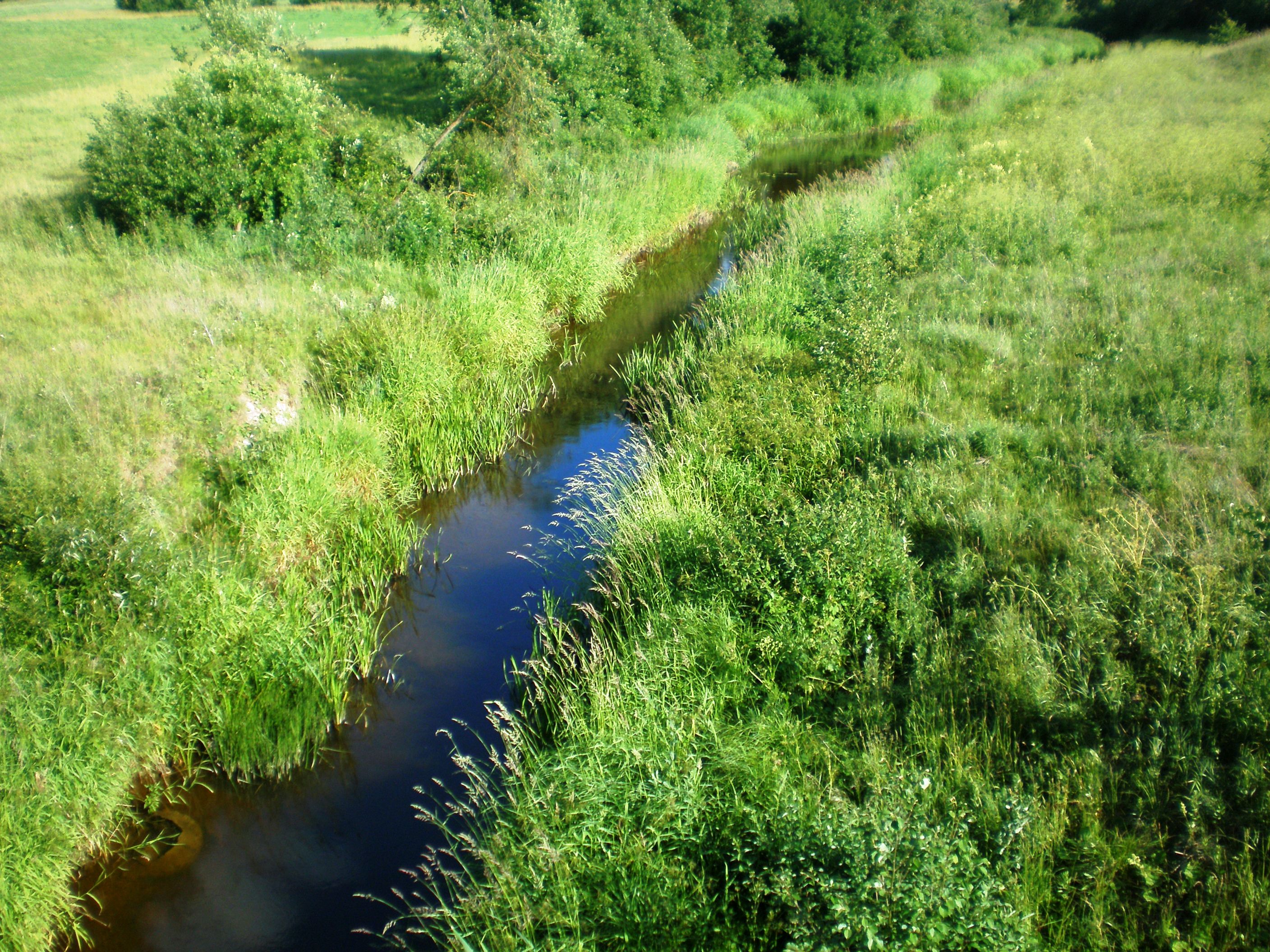 Tatula river near Pabiržė